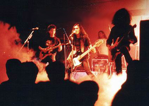 cromok in 80's